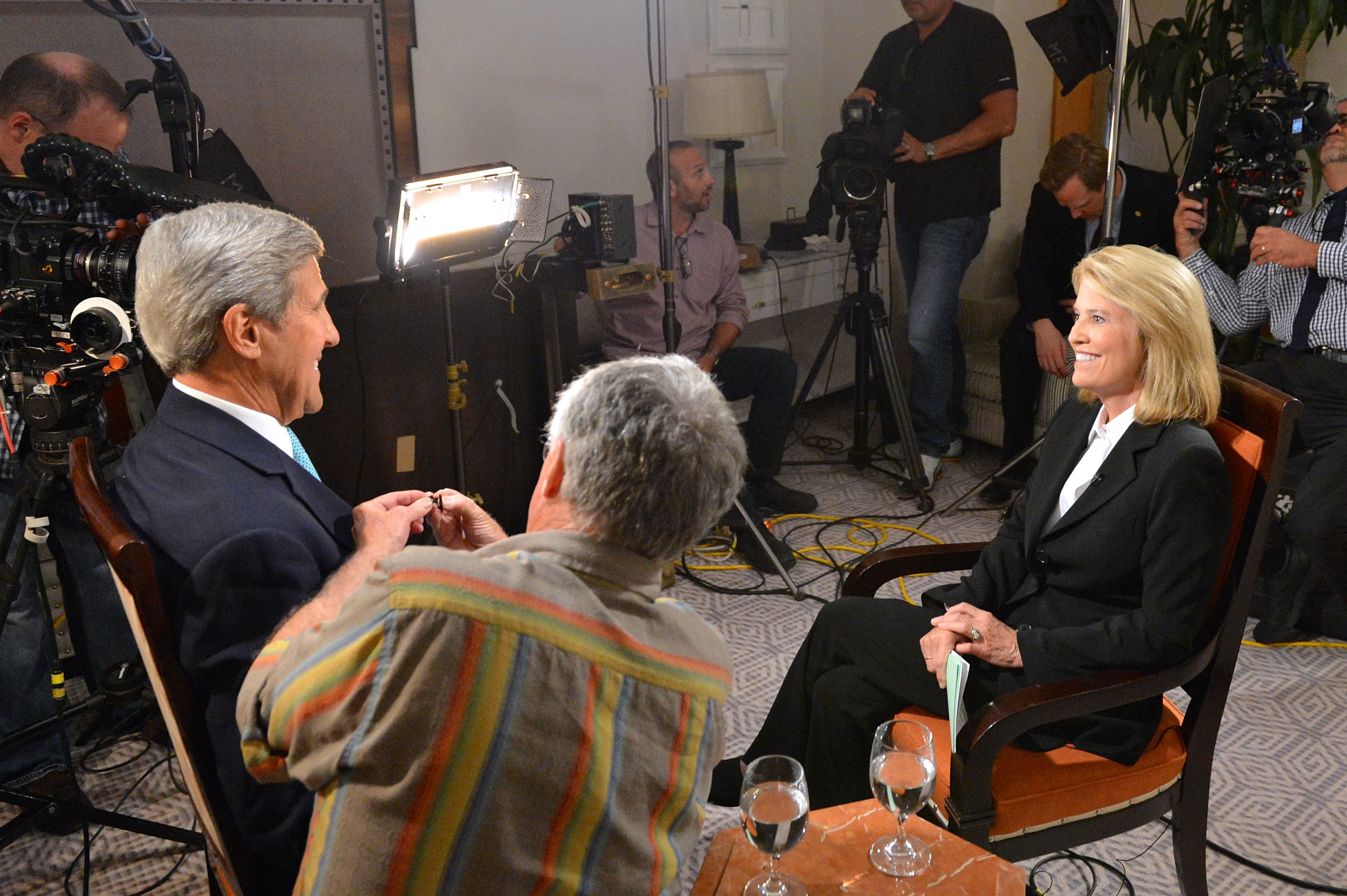 U.S. Secretary of State John Kerry is interviewed by Fox News' Greta Van Susteren on the sidelines of the 70th Regular Session of the UN General Assembly in New York, New York, on September 29, 2015. [State Department photo/ Public Domain]